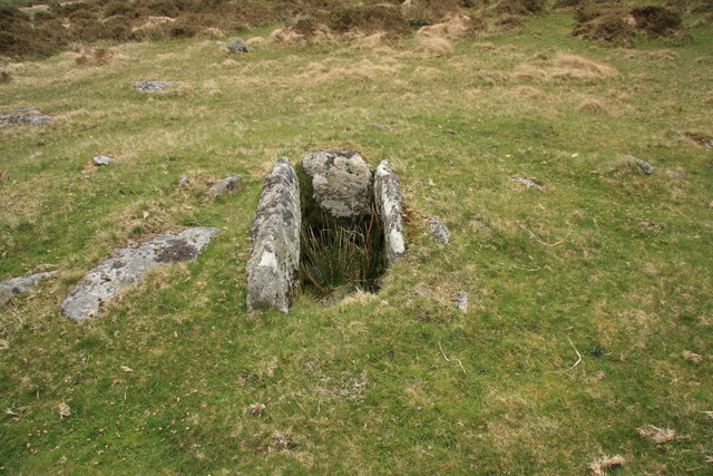 Chittaford Down cist This burial chamber to the south-west of Roundy Park settlement is missing its cover stone and one end stone appears to have fallen in.